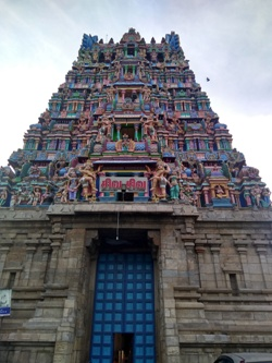 Rajagopura, Poovanur Sadhuranga Vallabanathar Temple, Tiruvarur district, Tamil Nadu, India